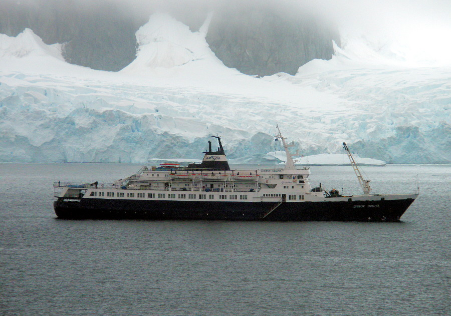 Motor Vessel Lyubow Orlowa having a rest; seen from Petermann Island (Antarctic Peninsula).